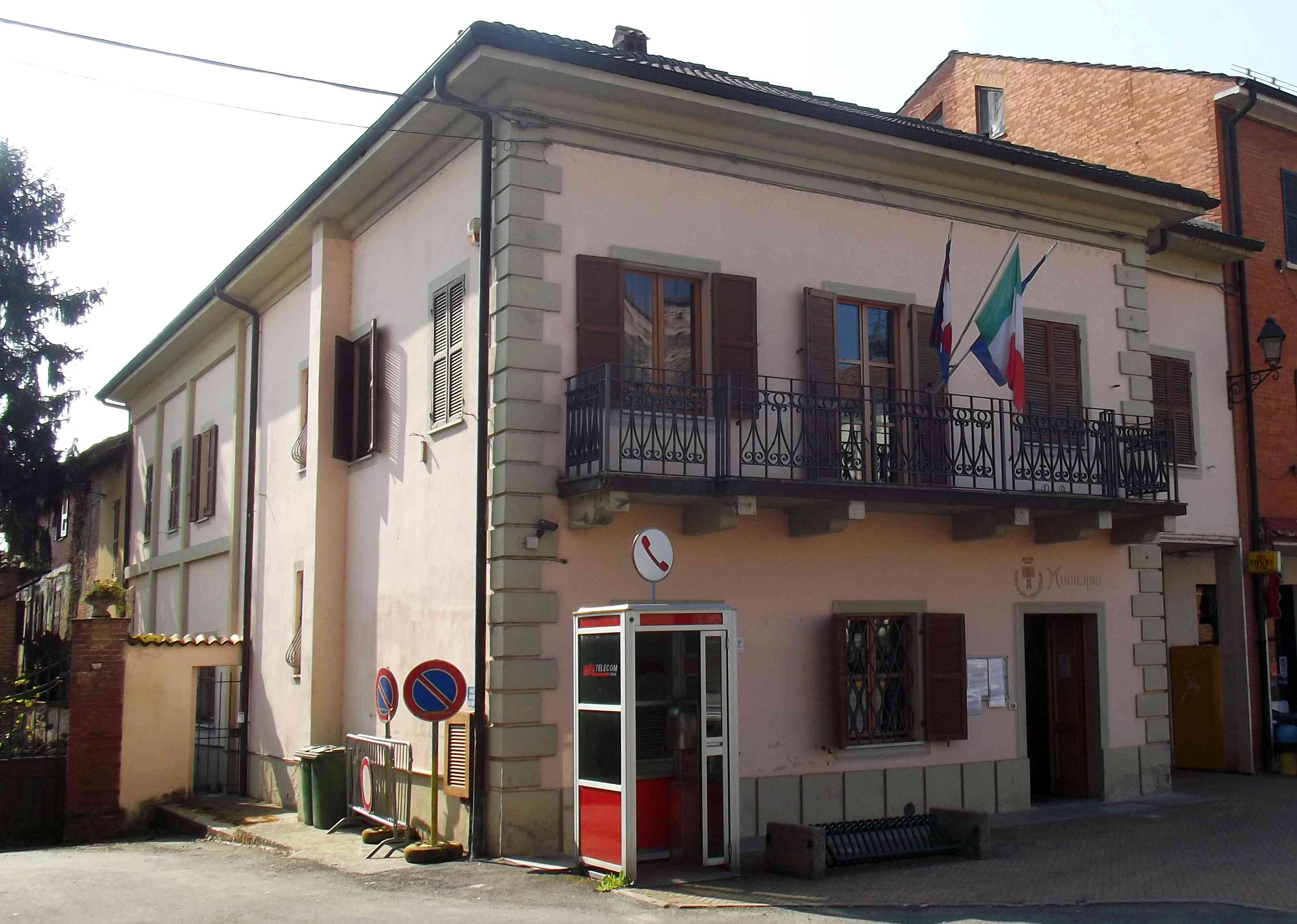 Castelnuovo Bormida (Al, Italy): town hall